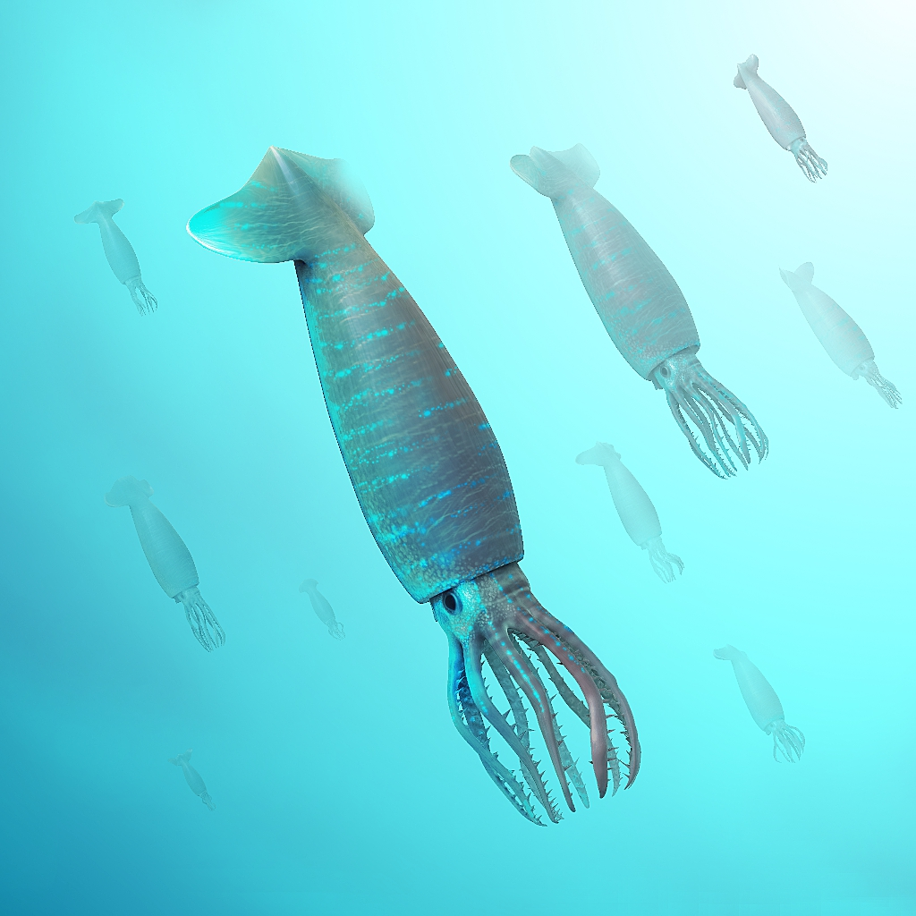 Belemnotheutis